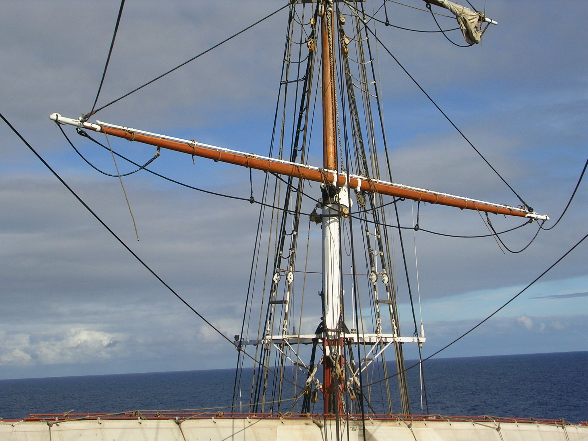 Stavros S Niarchos's main-topgallant yard refitted to the mast at sea after being brought down on deck for maintenance. Not all the lines are re-rigged yet; missing are the sheets for both the topgallant itself and the royal above it. The clewlines and buntlines are similarly not fitted, and the sail has not been bent on yet. The lines hanging free near the ends of the yard are gaskets (the one to the left of the picture is probably a clew gasket), which should really have been secured. Photo by Pete Verdon